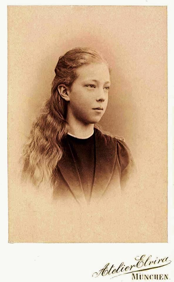 Herzogin Elisabeth in Bayern, later Queen of the Belgians.